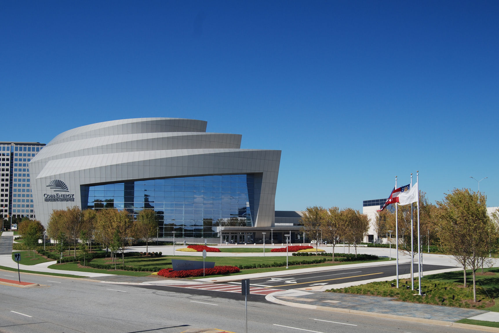 Wide front view of the Cobb Energy Performing Arts Centre, located at Cumberland in Cobb County in metropolitan Atlanta, Georgia.